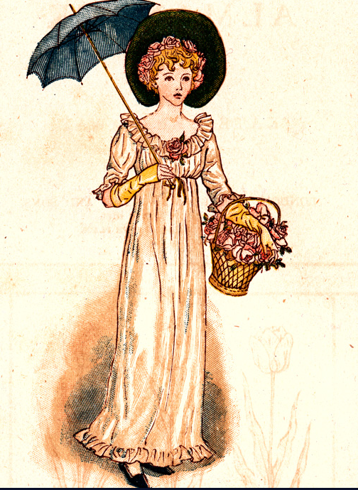 1884 Almanack, frontispiece